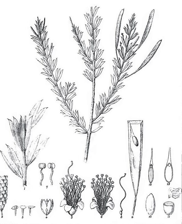 "Iconography of Australian species of Acacia and cognate genera" (1887) Author: Mueller, Ferdinand von, 1825-1896 Publisher: Melbourne, J. Ferres, Govt. Printer 130 plates of illustrations drawn by Robert Graff "The original drawings for this work as well as their lithographic delineations emanated from the skilled talent of Mr. Robert Graff, and demonstrate patient perseverance as well as artistic accomplishment." "The drawings (by Mr. Robert Graff") and the execution of the plates are excellent, the objects portrayed standing out with boldness and clearness. "